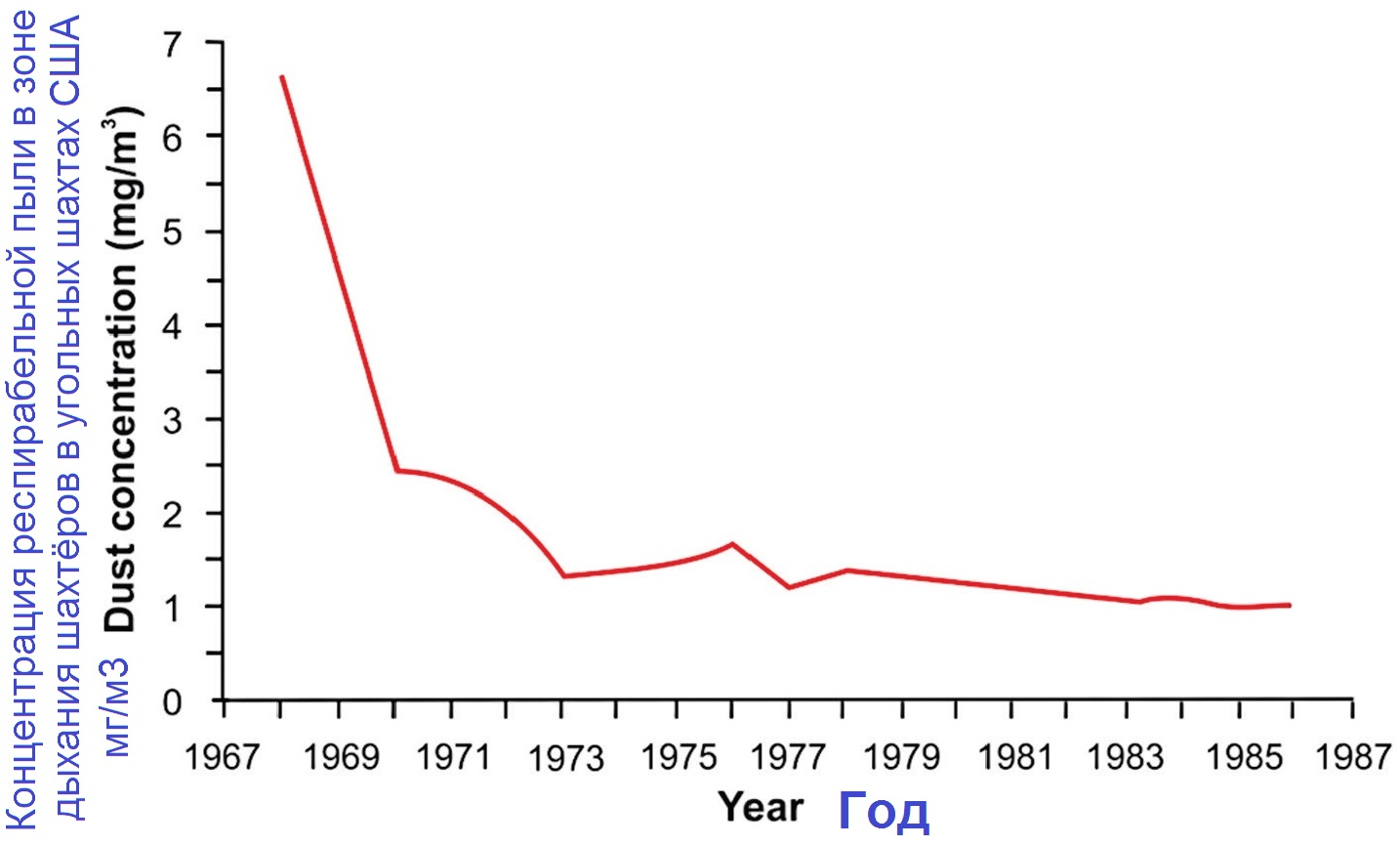 Figure 2. Trend in reported dust concentrations for continuous miner operators, 1968–87. [Figure 4–1 of the CCD (1)] (Source: Attfield and Wagner (2)).